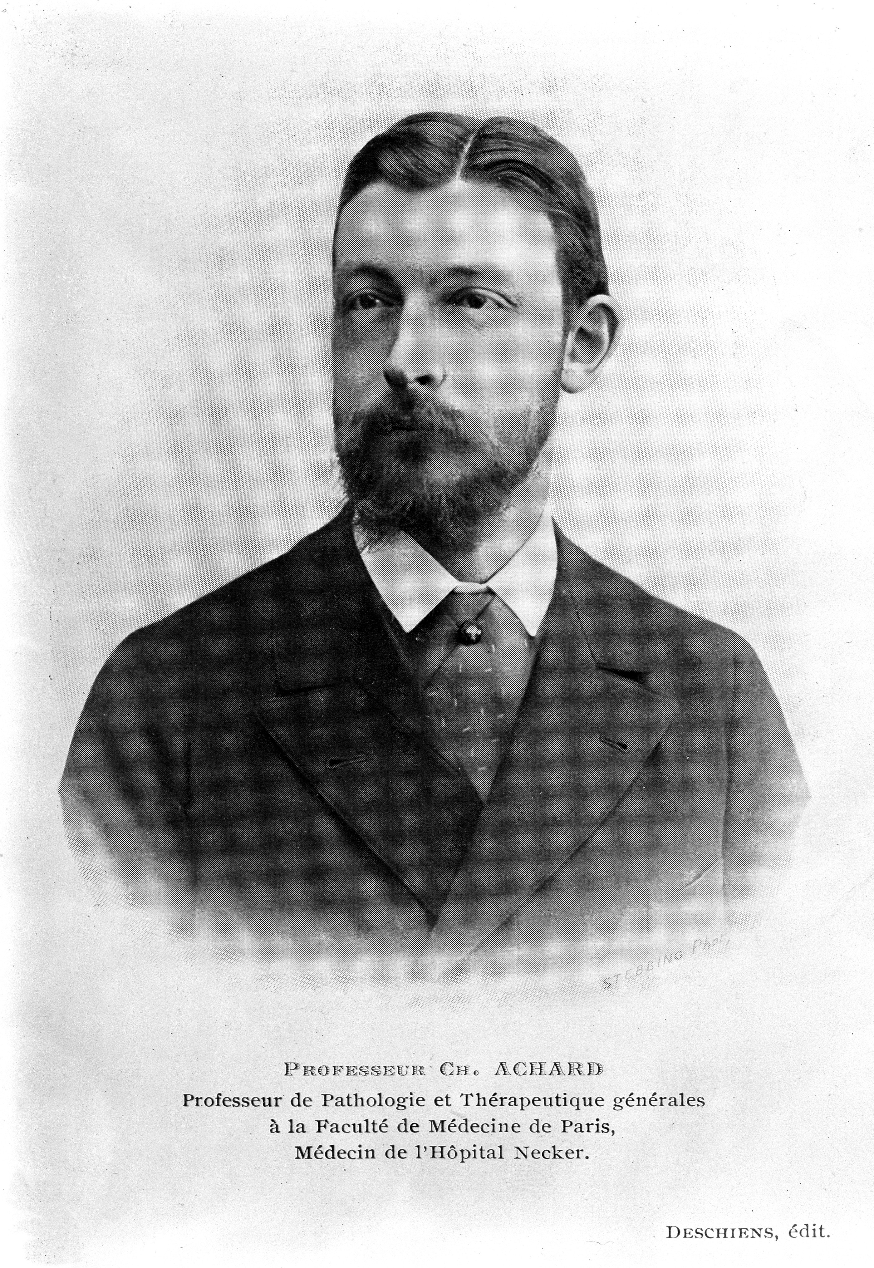 Portrait of Emile Charles Achard, Professor of Pathology at the Faculty of Medicine, Paris Iconographic Collections Keywords: Stebbing; Emile Charles Achard